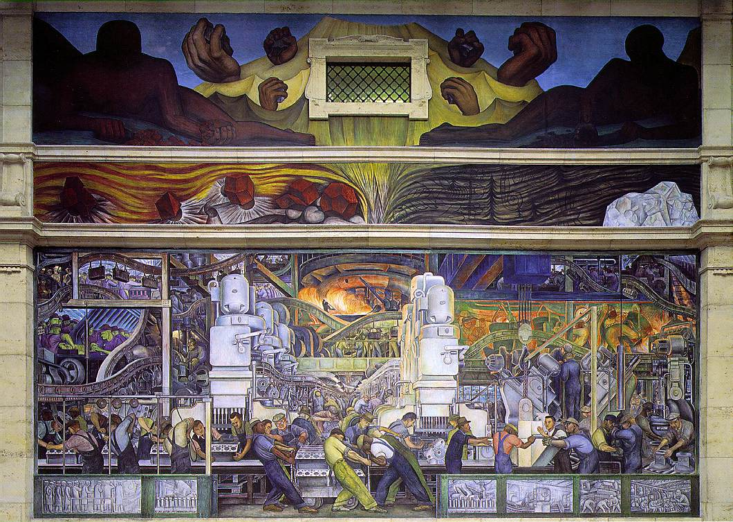 Overview of Detroit Industry, North Wall, 1932-33, fresco by Diego Rivera. Detroit Institute of Arts. See also